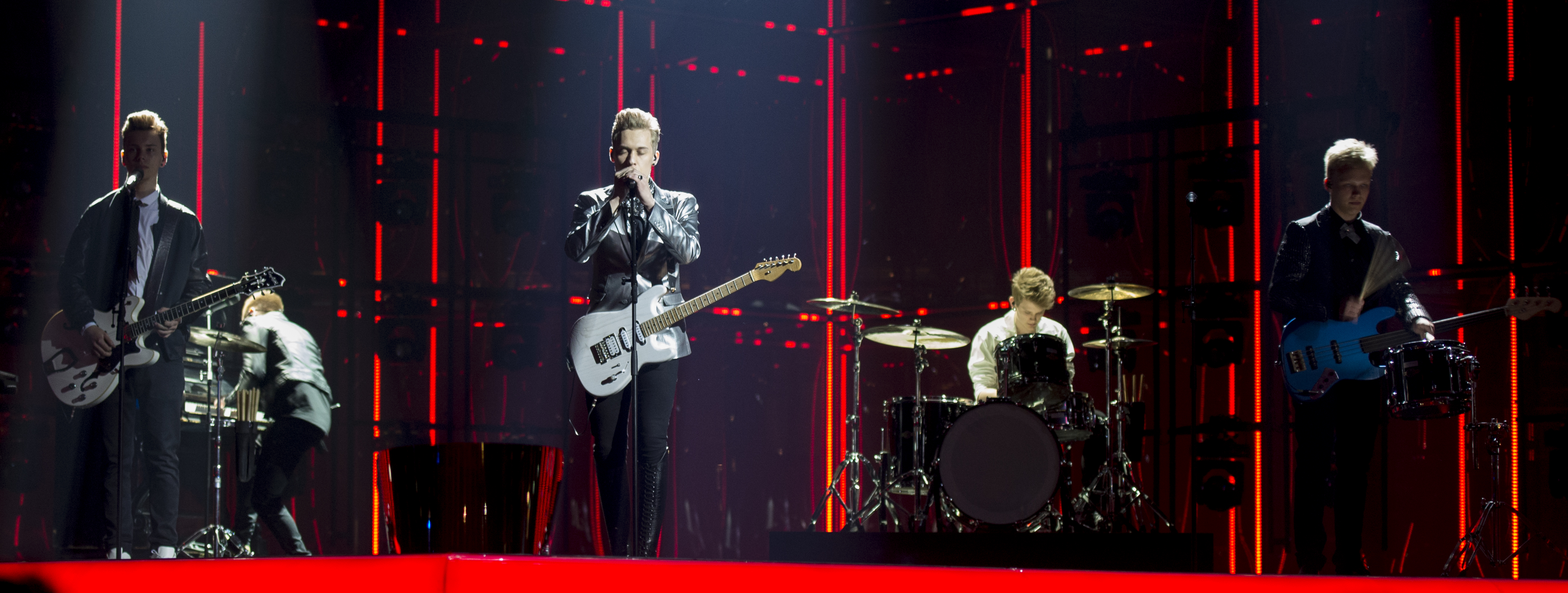 Softengine representing Finland with the song "Something Better" during the first dress rehearsal of the second semi final of the Eurovision Song Contest 2014 Copenhagen. (Help translate this text)